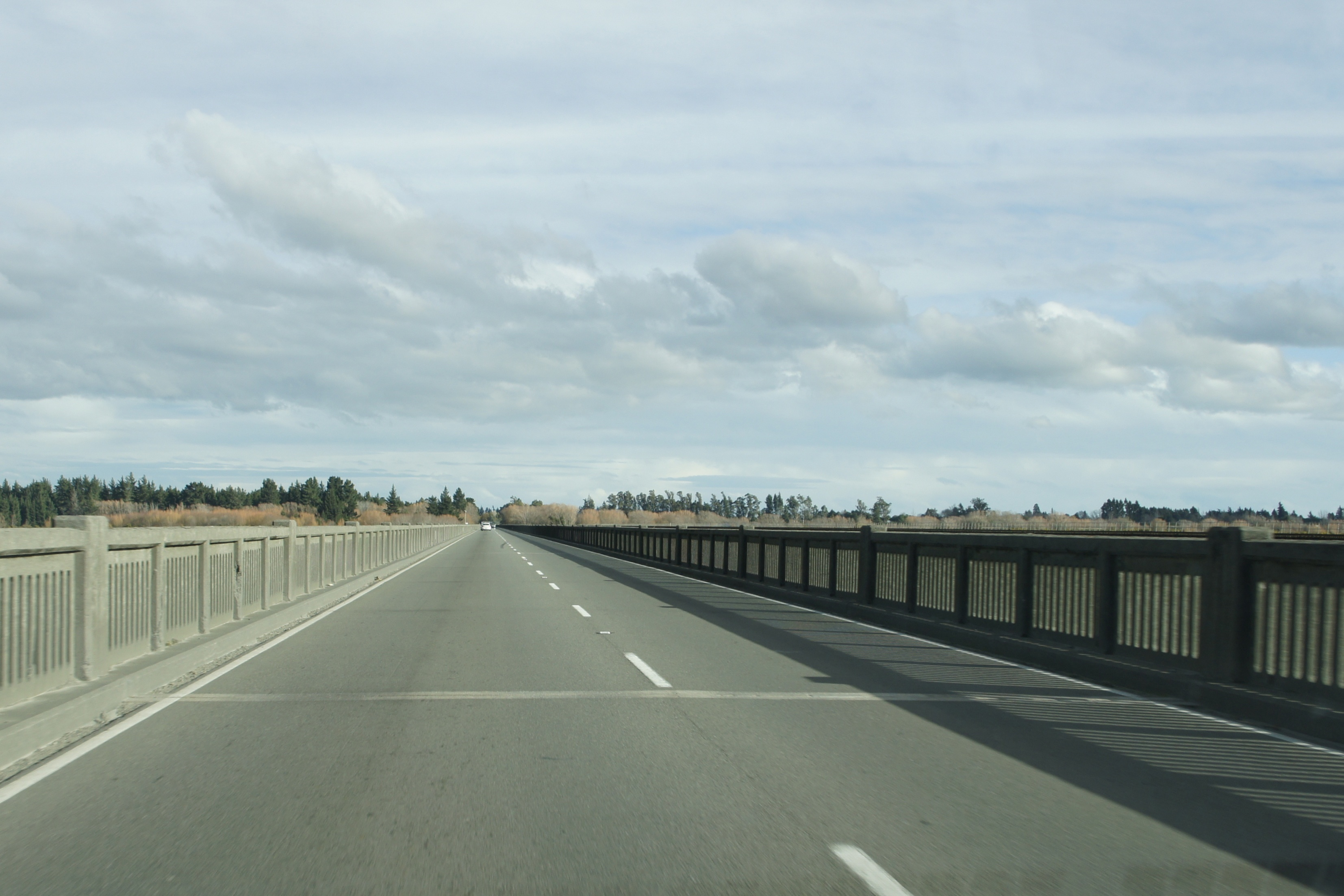 When opened on 25 March 1939, the Rakaia River Bridge was New Zealand’s longest bridge, and it has retained that title. The bridge is 1.8 kilometres in length, comprising of 12.2 metre spans.